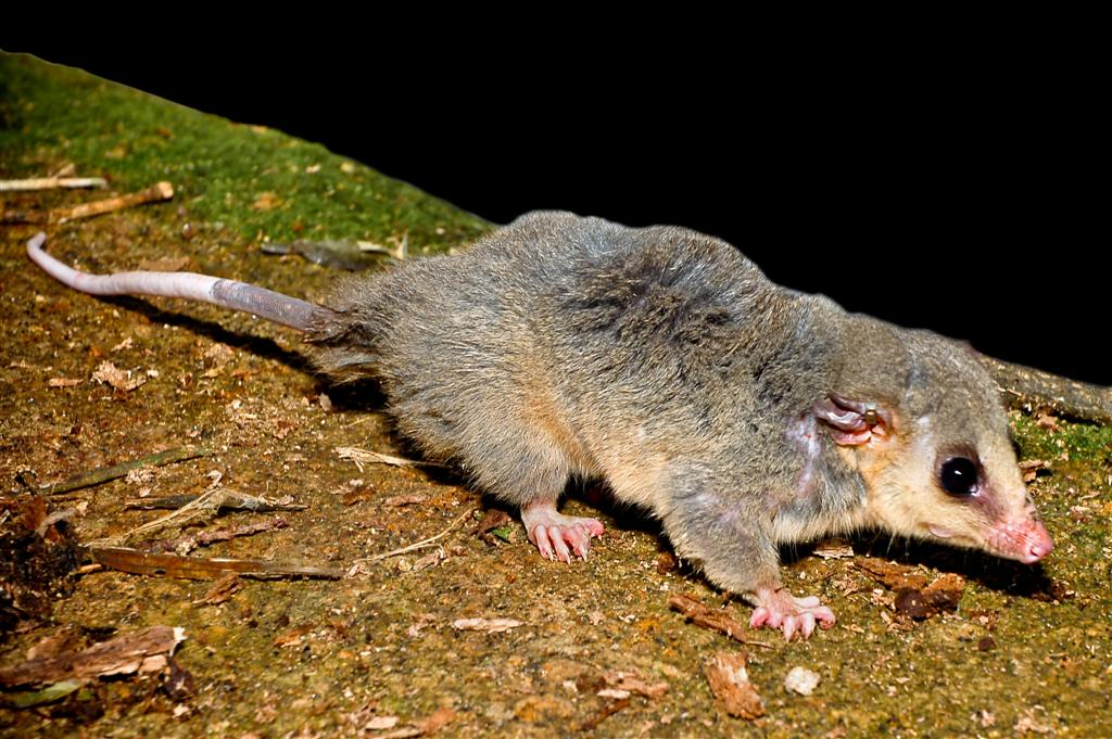 Micoureus sp., an opossum from South America.